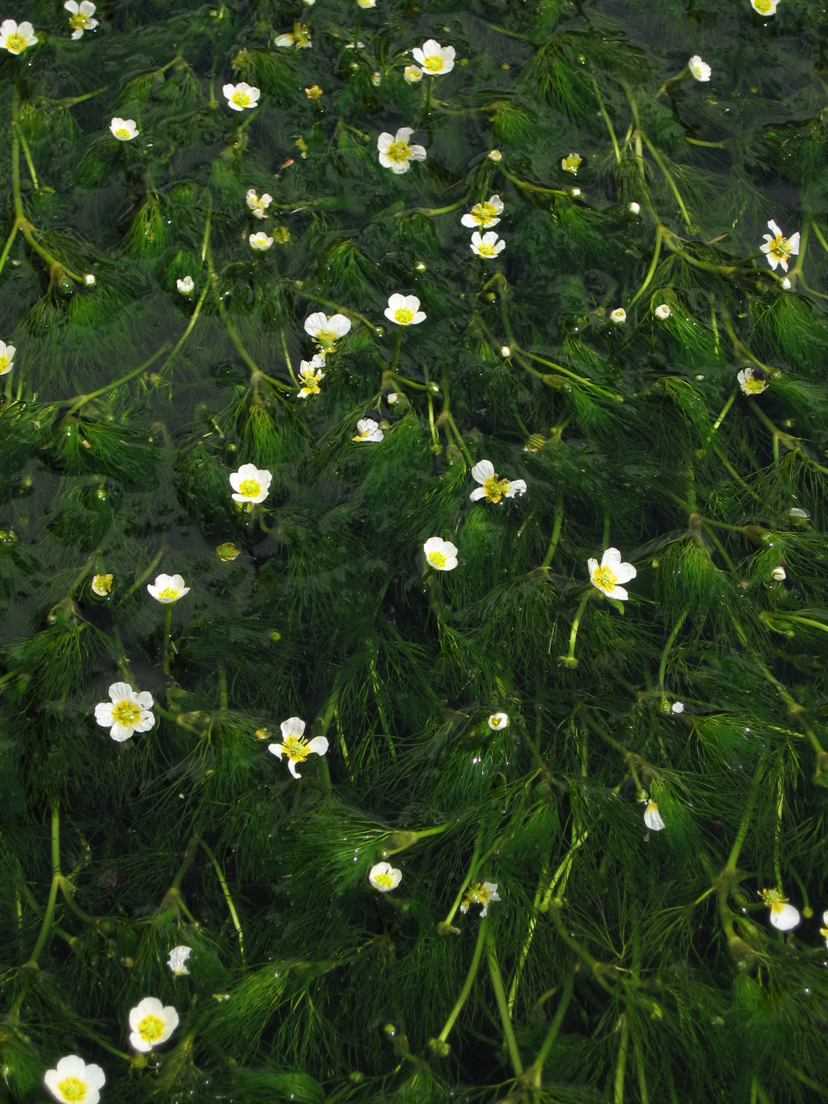 Ranunculus nipponicus var. submersus River Jizo, Samegai Maibara Shiga, Japan.